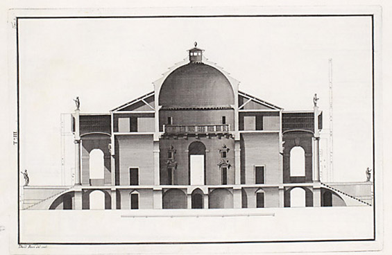 Villa Almerico Capra called "La Rotonda" by Andrea Palladio. Drawing by Ottavio Bertotti Scamozzi, 1778.